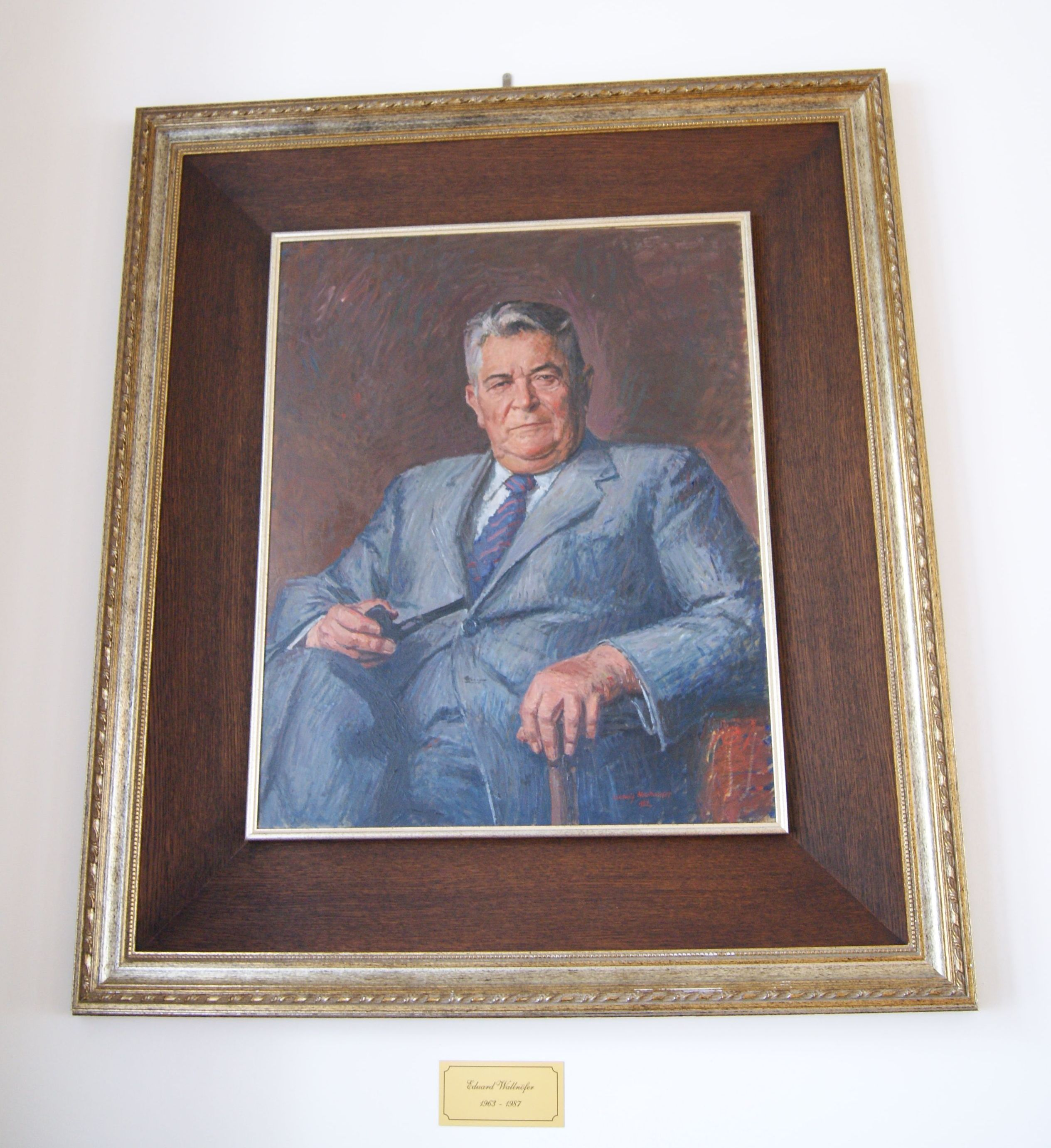 Eduard Wallnöfer, head of the Provincial Government and the authority in charge of indirect federal administration of Tyrol.